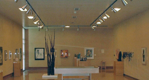 Interior of the Birger Sandzén Memorial Gallery in Lindsborg, Kansas, U.S. The photograph is not detailed enough that the pieces of art in it can be identified, so it should pose no challenge to the copyrights of the artist(s), if any exist.